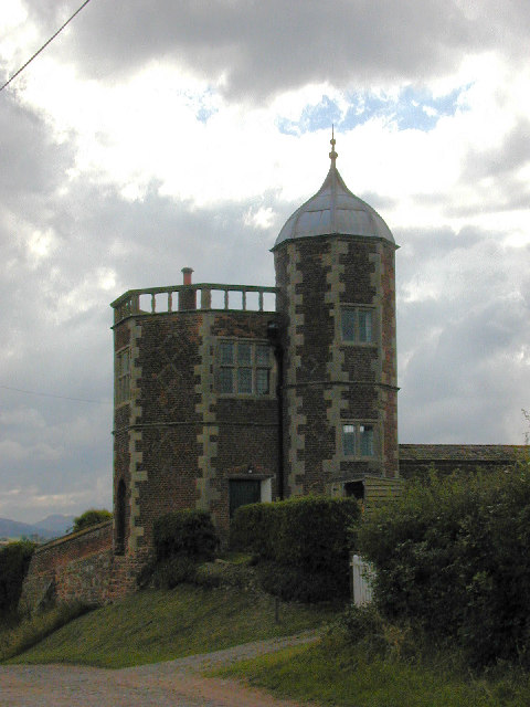 Eyton-on-Severn Tower. Built in 1607 as the summerhouse of a mansion. The mansion has gone but this, and its barn (now converted to cottages) is all that remain. Fine newer farmhouse opposite. Turret has an ogee cap and is octagonal.